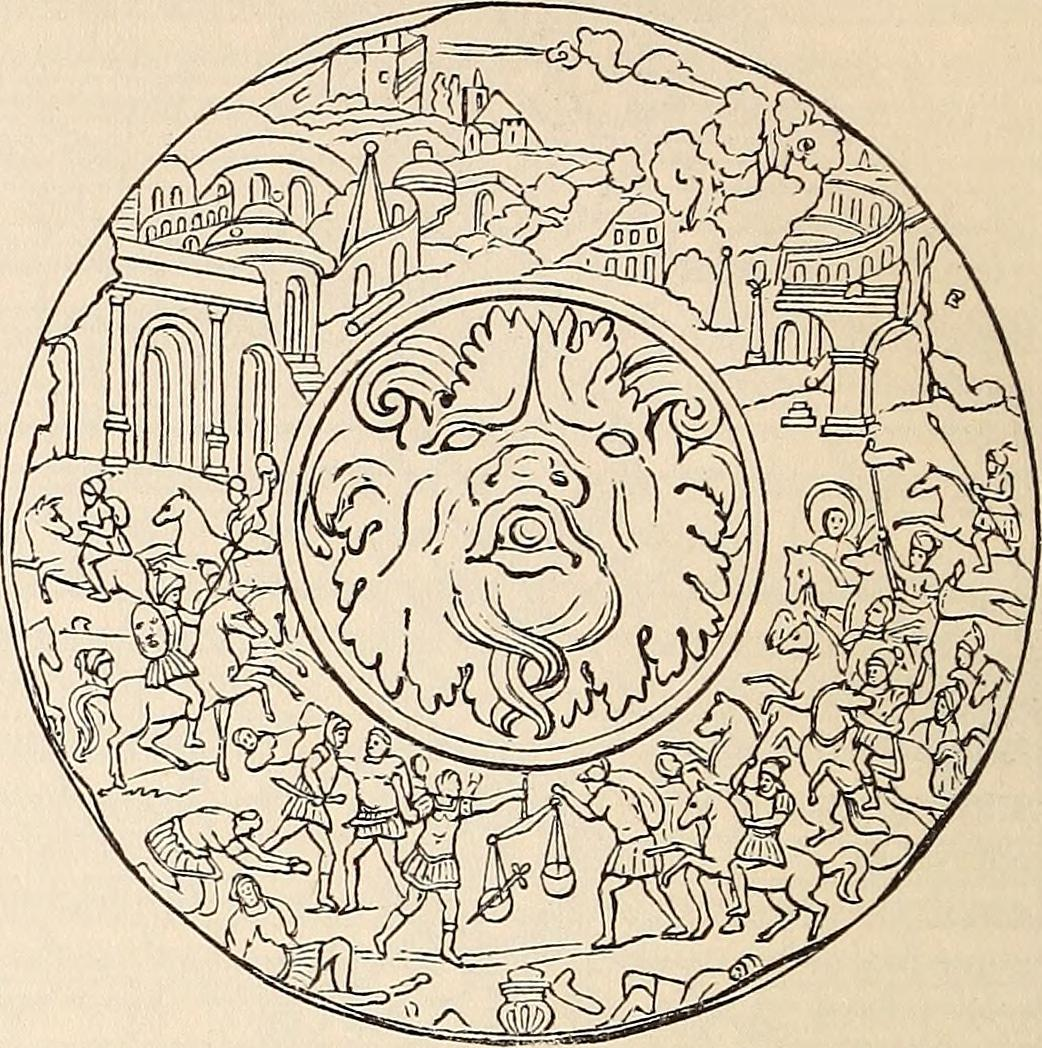 A parma shield, like those used by the Velites.